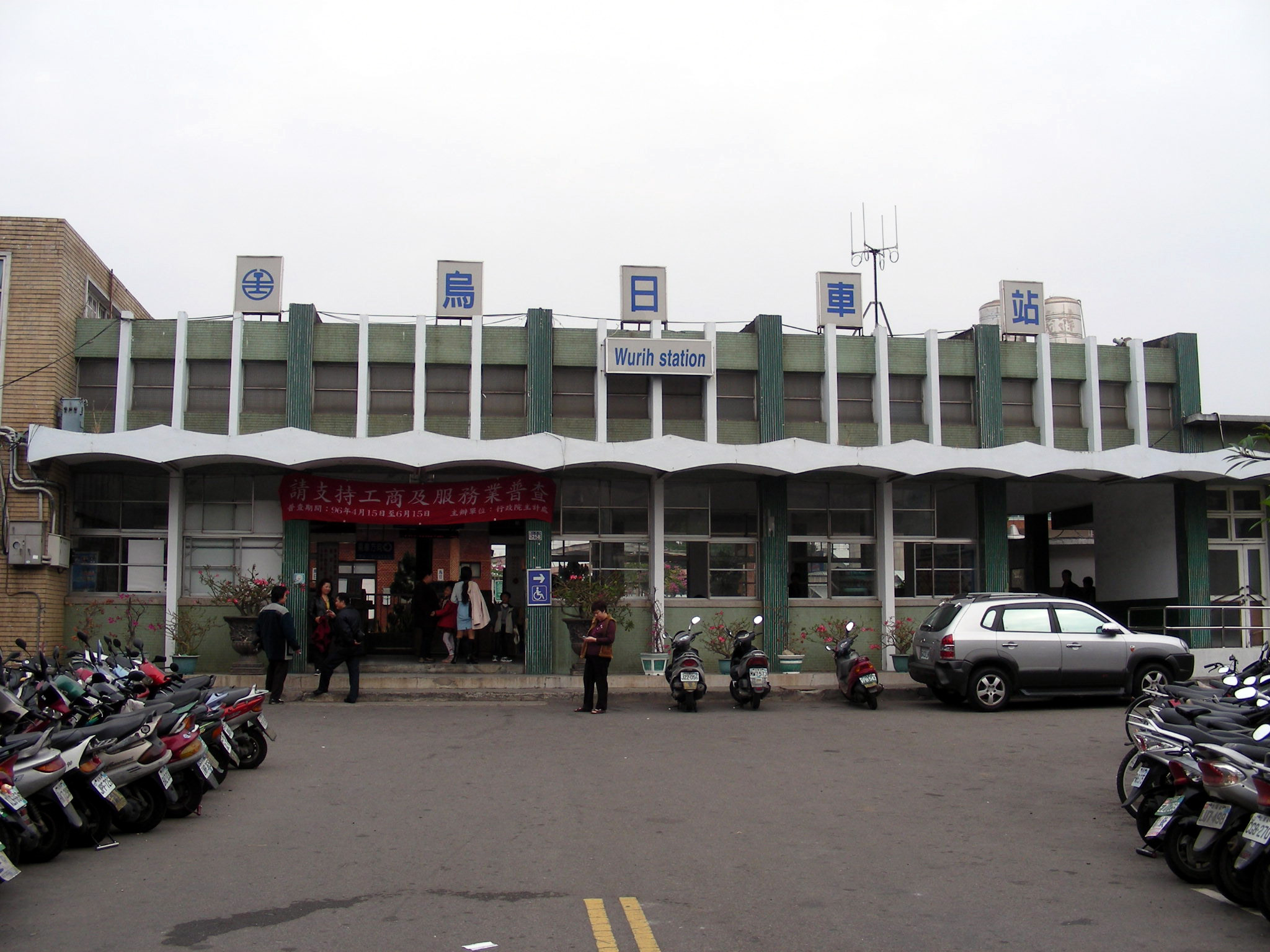 Taiwan "Wu Rih" Railway Station.